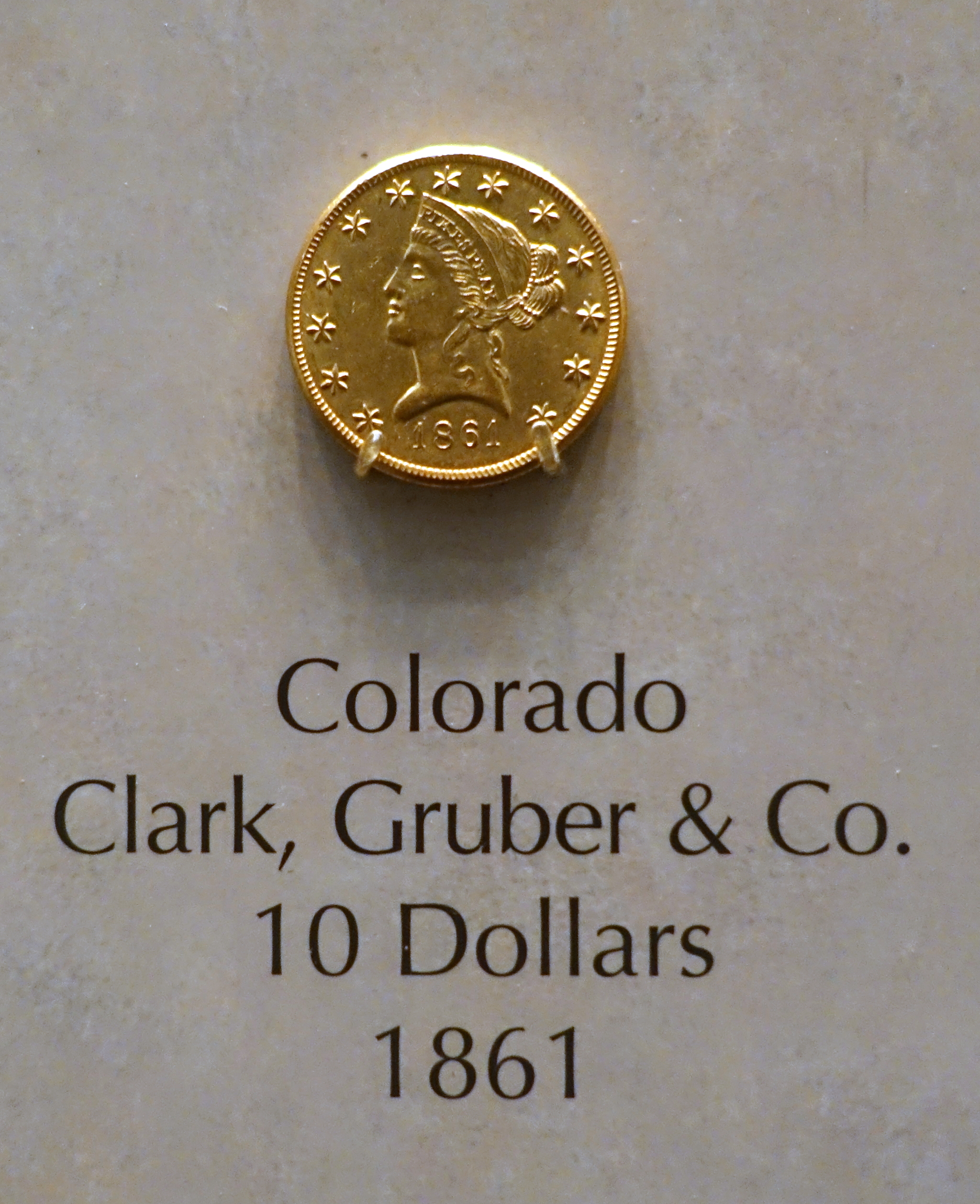 Exhibit in the National Museum of American History, Washington, DC, USA.